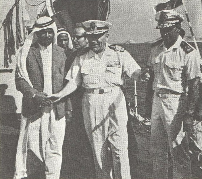 Sheik Saghar, brother of Sharjah Sheik at Iran's Artmis Navy Ship, welcoming Iranian officials to Abu Musa